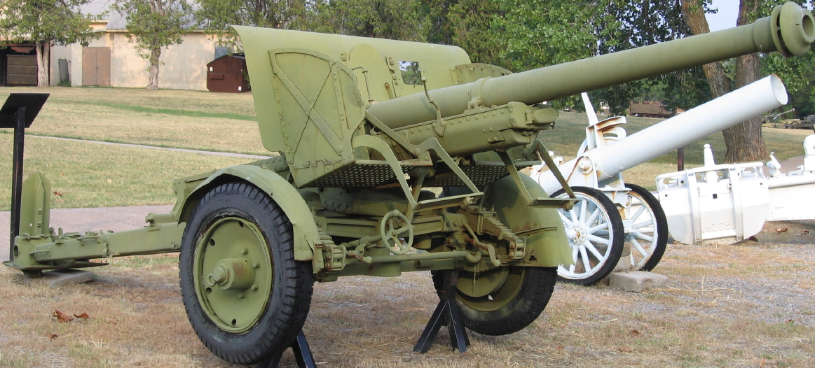 front view of a Japanese 75 mm Type 90 field gun